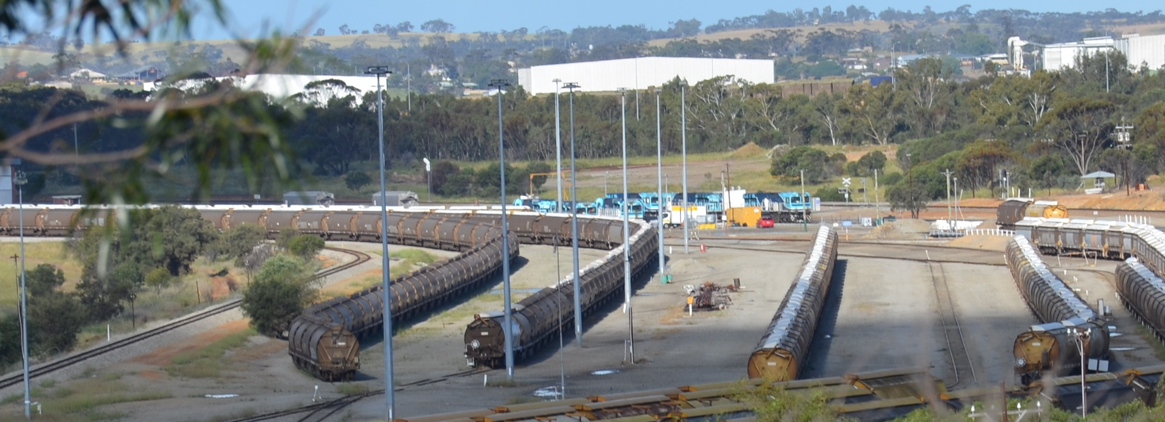 Avon Yard - railway yard, West Northam, Western Australia looking east across the yard. Context - the yard is about to be closed as a railway yard for general operations, however it will remain a depot for Watco/CBH - whose diesel locos are in two tone blue at mid upper part of photo, most of the wagons in view are Aurizon, former westrail/wagr grain loading wagons that are no longer in general use. The yard had more lines, but have been removed. The CBH bins/silos are out of picture to the right (south